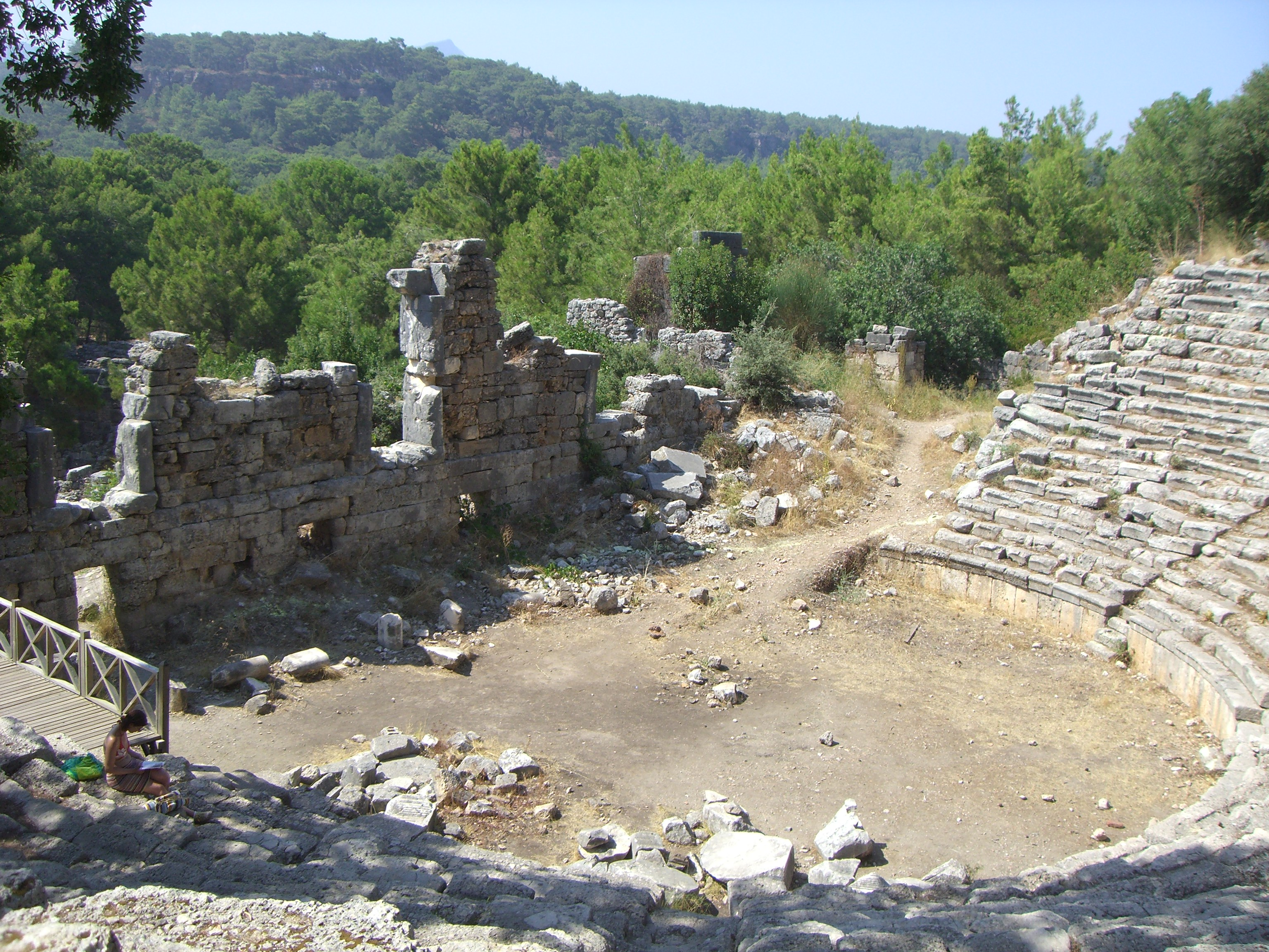 Phaselis, theatre